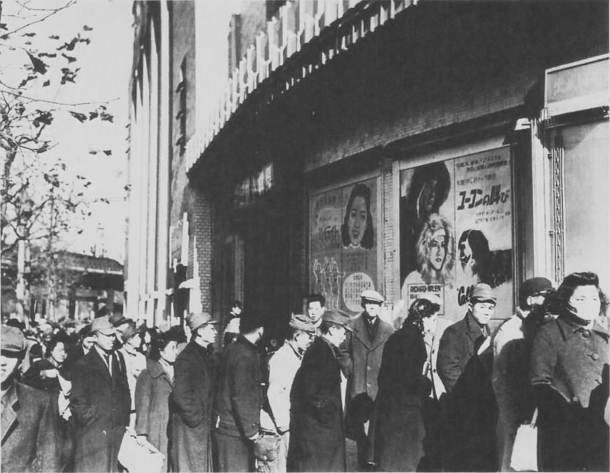 Japan's first appearance at the time of publication of the "Call of the Yukon"